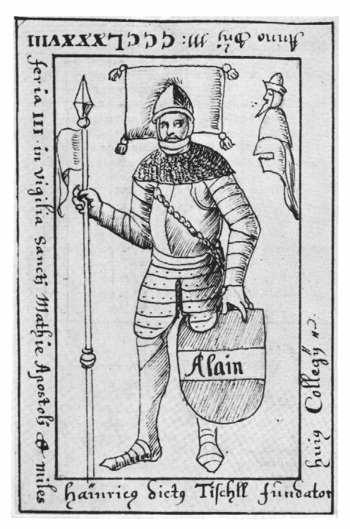 Picture of the lost gravestone of Henry Tuschl in the „Gravestone-Book“ of Bishop Eckher of Freising (1649-1727)